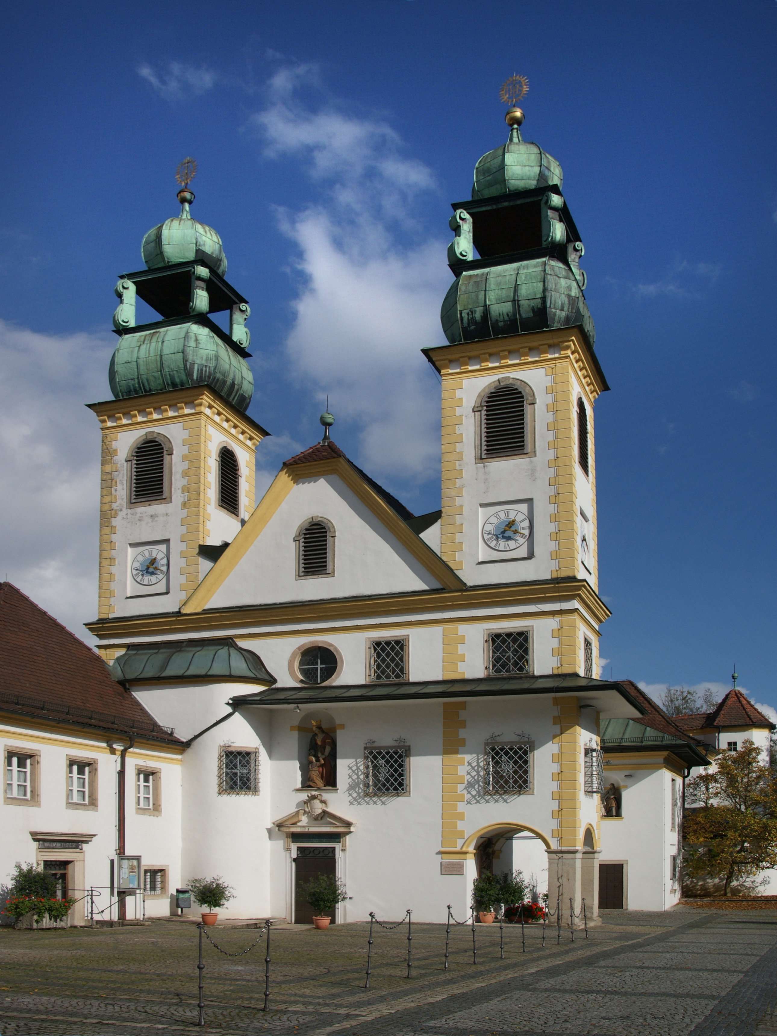 Pilgrimage church Mariahilf in Passau This is a photograph of an architectural monument.